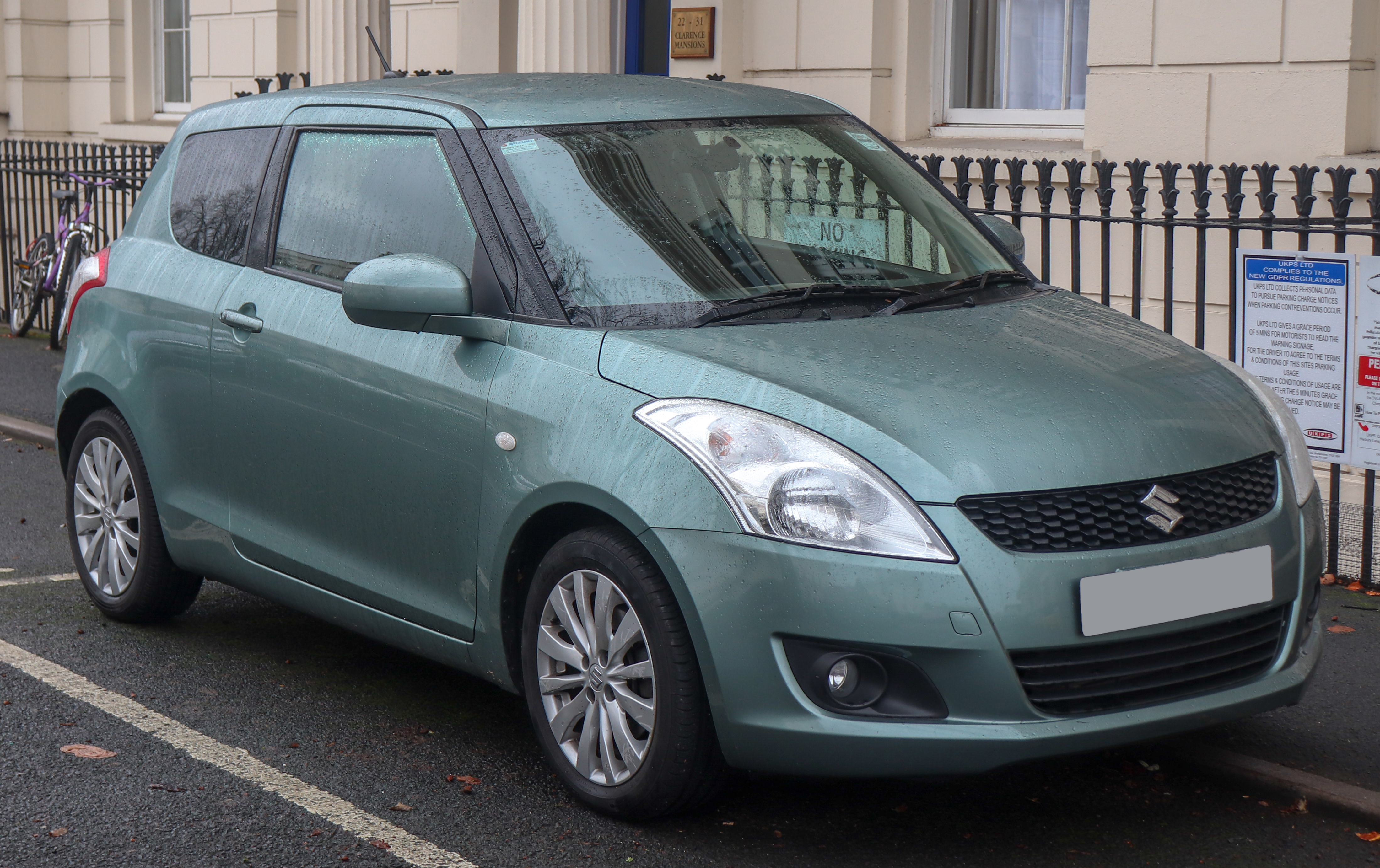 2012 Suzuki Swift SZ4 1.2 Front Taken in Leamington Spa